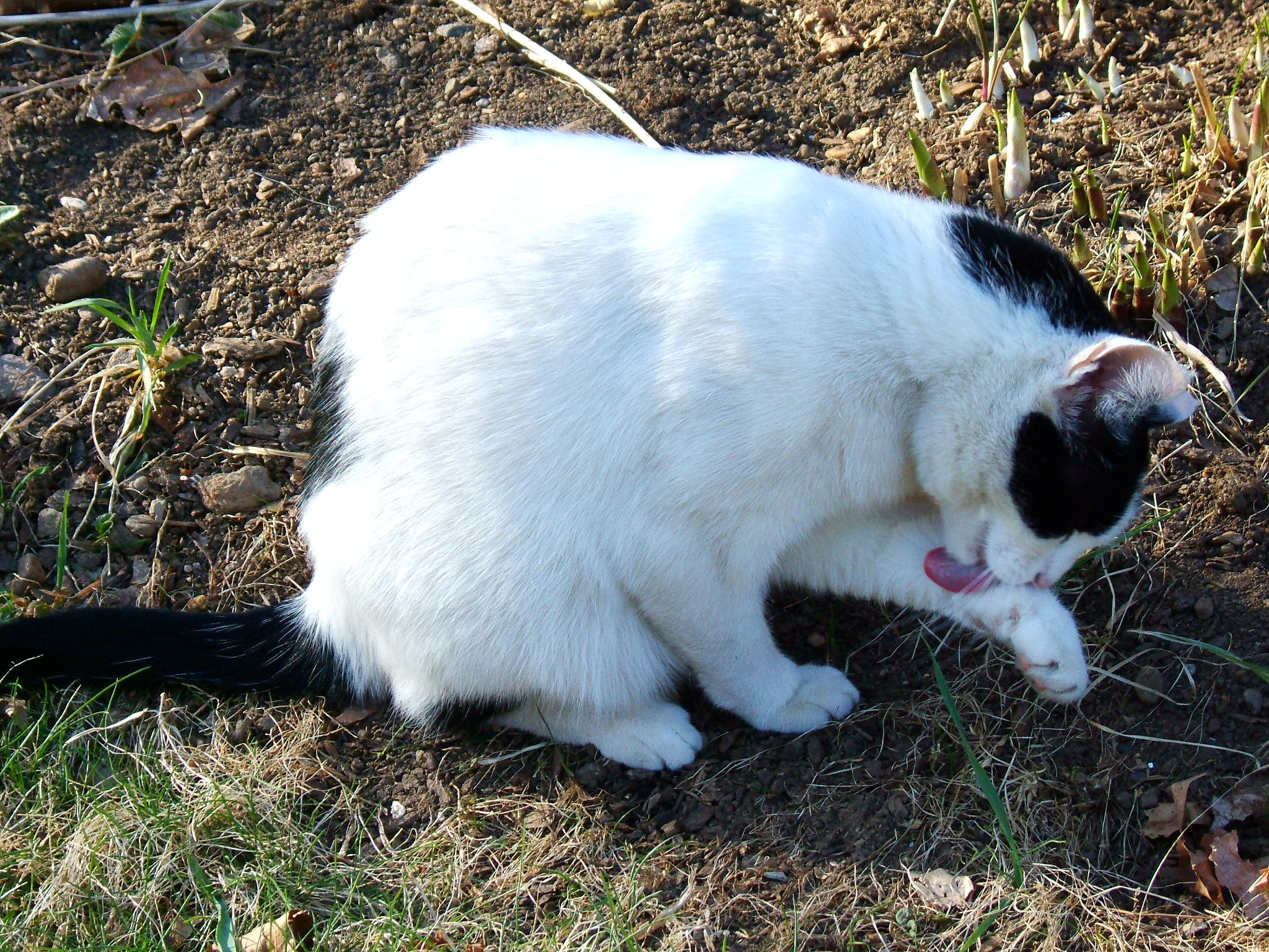 Cat washing itself. The cat licks its paw and uses its paw to clean its head (see image Image:Cat washing - by tracy.jpg.